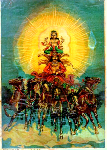 From Baroda Art Gallery